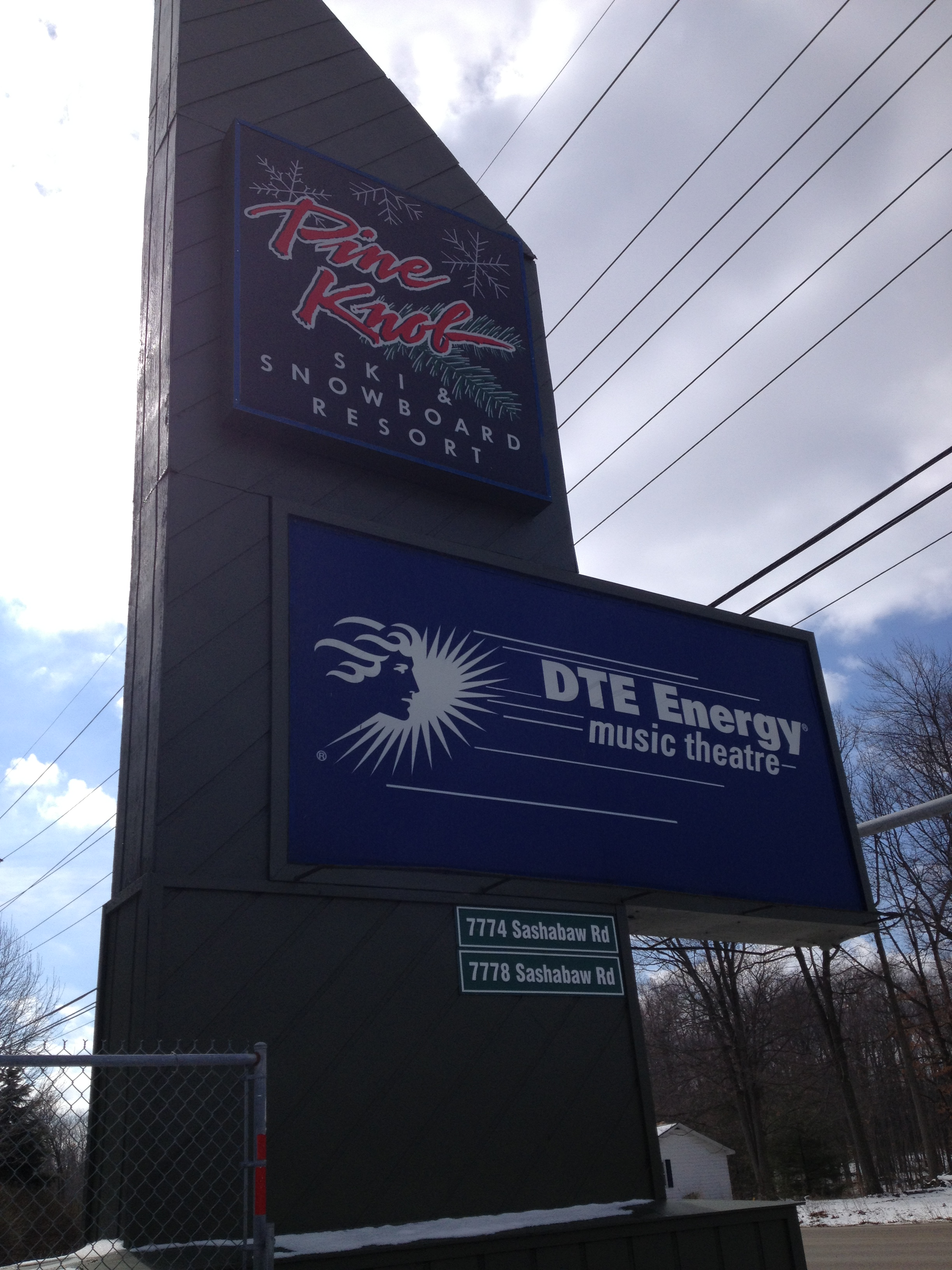 The entryway signage for the DTE Energy Music Theatre in Clarkston, Michigan.